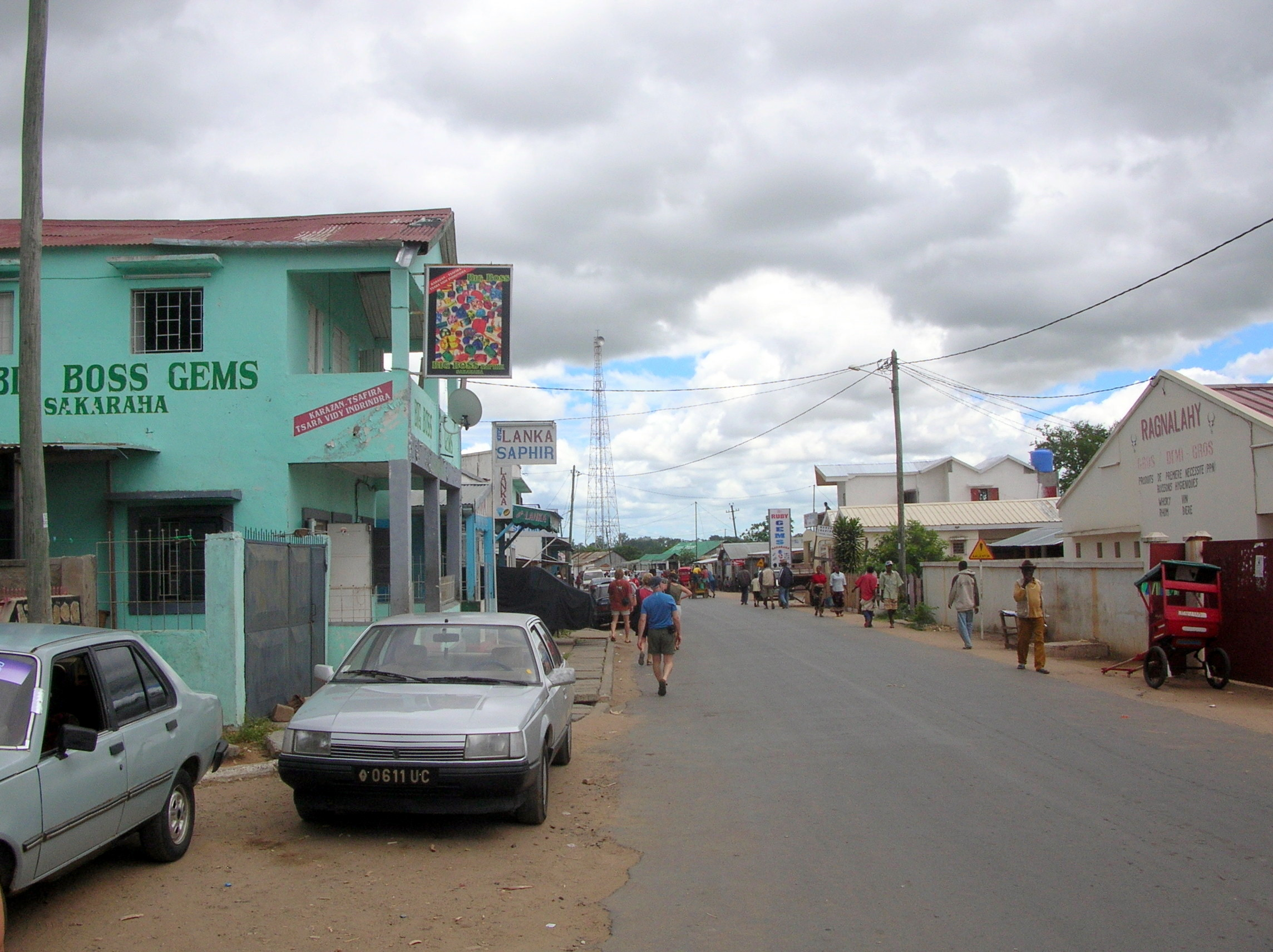 Main street of Sakaraha, Madagascar